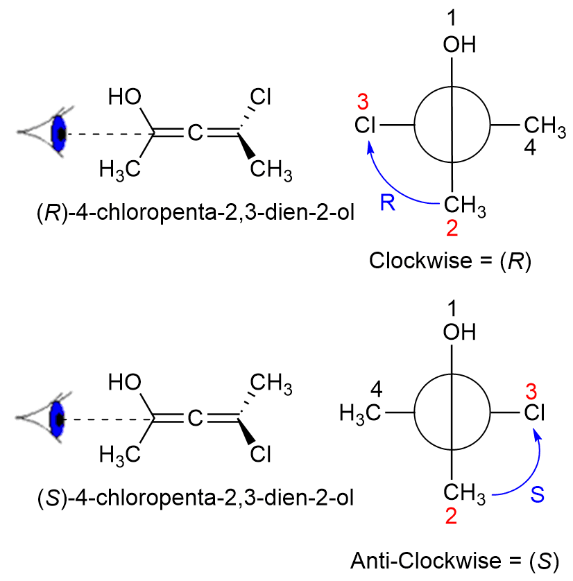 Images of (S)- and (R)-allenes